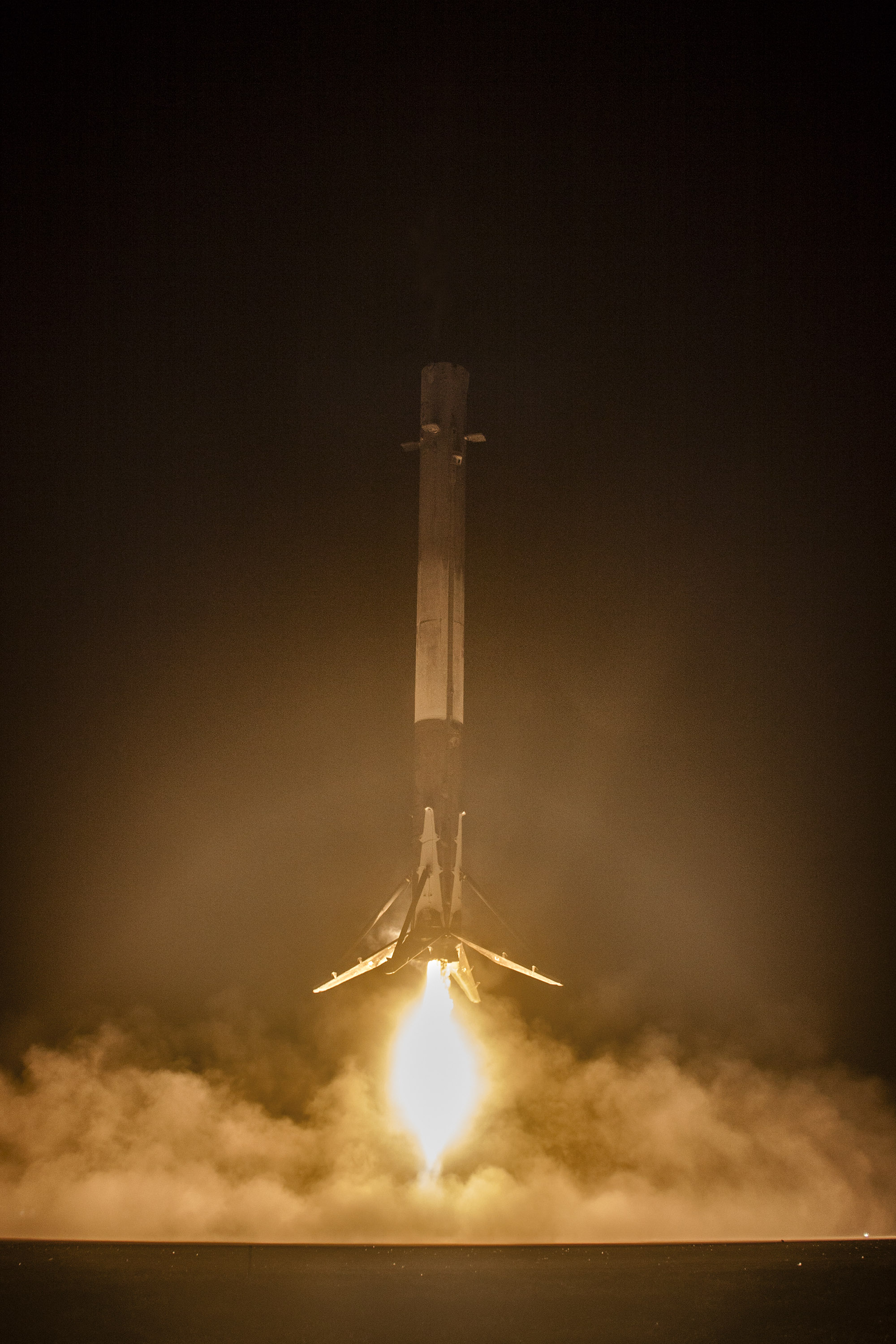 First stage of a Falcon 9 Full Thrust rocket lands on the Landing Zone 1 after launching 11 Orbcomm OG-2 telecommunication satellites to Low Earth orbit.